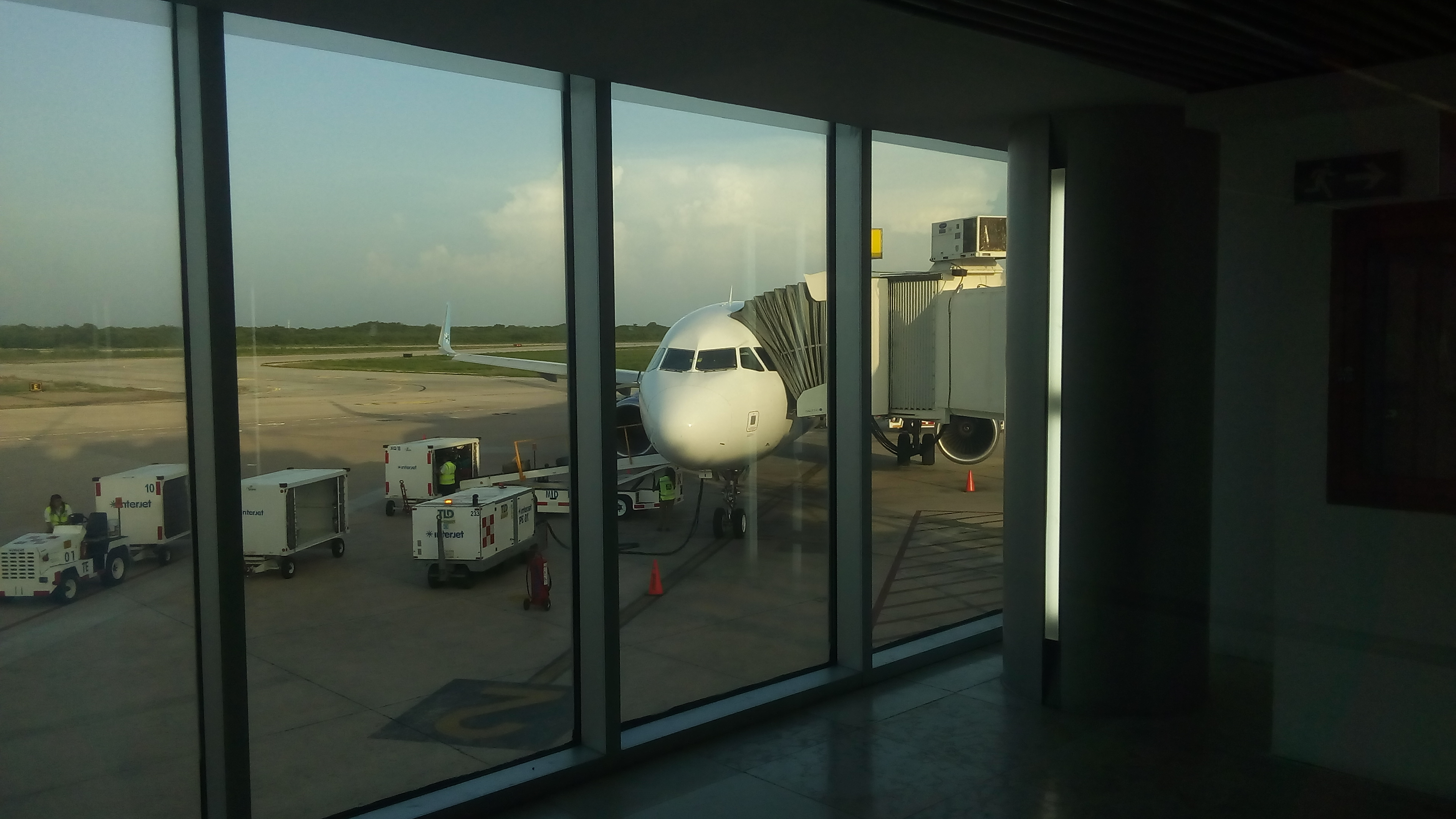 Interjet Airbus A320 at Mérida International Airport.